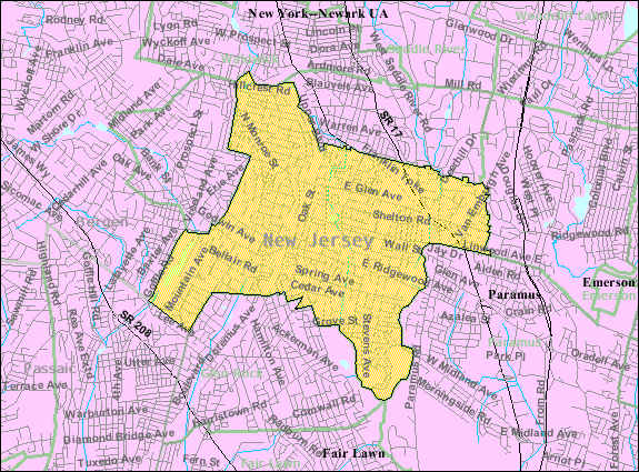 U.S. Census Bureau map of Ridgewood